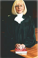 Photo of Judge Sandra Beckwith.